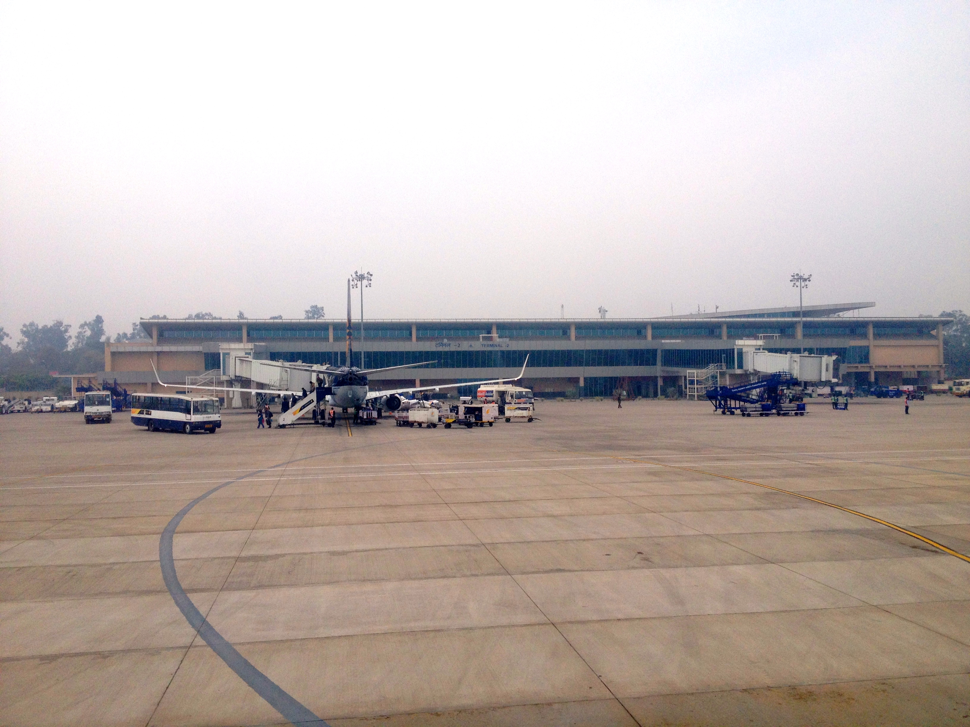 Airside View of the new terminal at Lucknow Airport, India